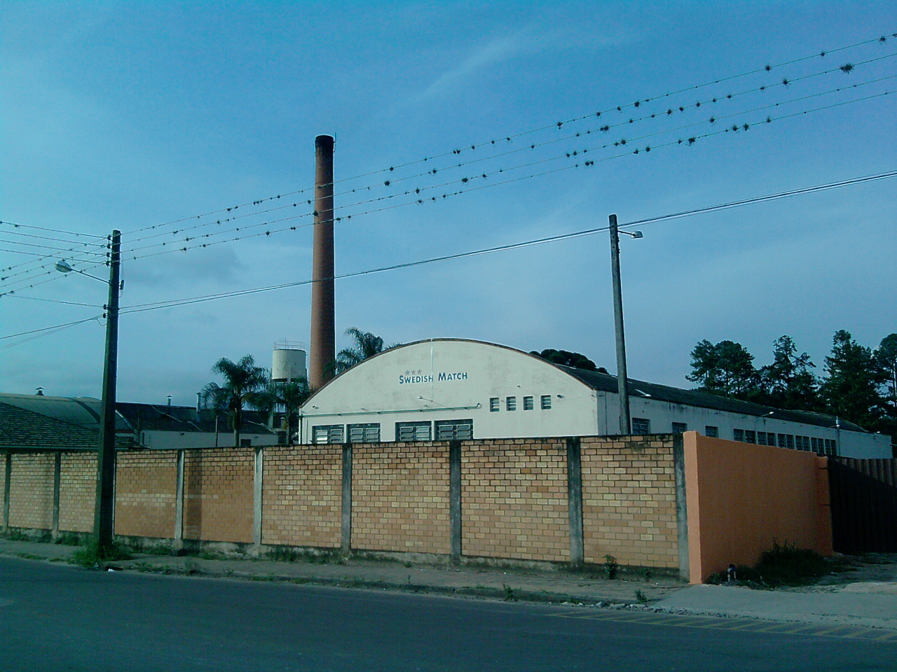 External view, partial and frontal of factory matches belonging to Swedish Match in Piraí do Sul, Paraná, Brazil